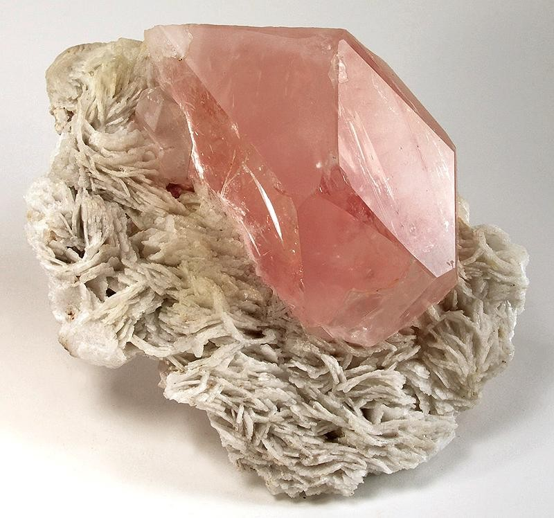 Beryl (Var.: Morganite), Albite (Var.: Cleavelandite) Locality: Darra-i-Pech (Pech; Peech; Darra-e-Pech) Pegmatite Field, Nangarhar (Ningarhar) Province, Afghanistan (Locality at ) Size: 14.6 x 10.0 x 7.4 cm. This superb specimen is a glowing pink morganite crystal with exceptional color, perched smartly on a well-trimmed matrix of cleavelandite. The crystal is remarkable for its symmetry, and its gemminess, which is obvious even in the photos. The faces are sharp, showing none of the typical rounding one normally sees in large morganites from here. It is 9 x 6 x 5 cm in size. As is expected for this locality, the front and back faces are glassy and some of the side faces are of a duller, matte lustre - typical for the locality, in any case. Usually, only one gemmy frontal face shows and these tend to be buried in the matrix, this making this exceptional for its display position which shows both rear and front faces off. What is really atypical is the fact that the side faces are so sharply defined by steep bevels - and this is not common in Afghanistan morganites, which usually have flat sides. Ex. Marc Weill Collection.